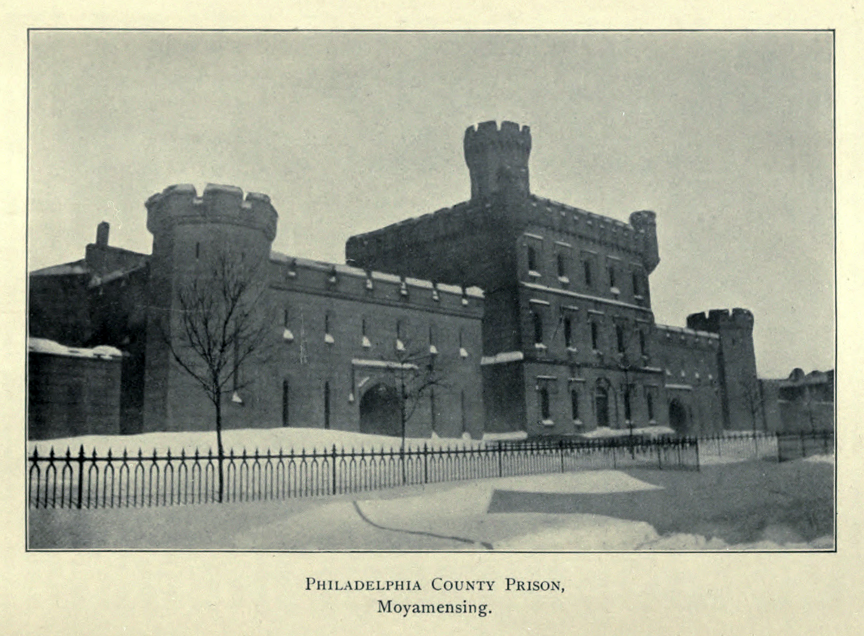 Philadelphia County Prison, Moyamensing, The Journal of Prison Discipline and Philanthropy, Pennsylvania Prison Society (Jan. 1901), Pgs. 10-11